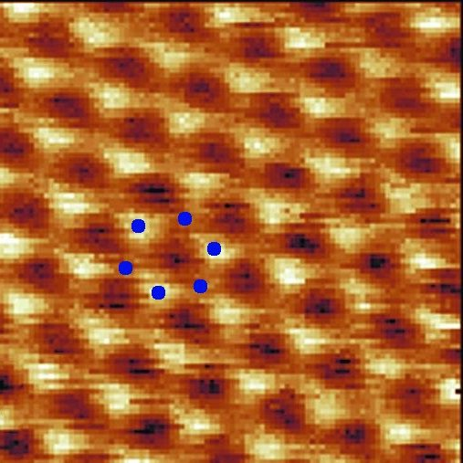 Surface of HOPG (Graphite) visualized by a scanning tunneling microscope (STM).